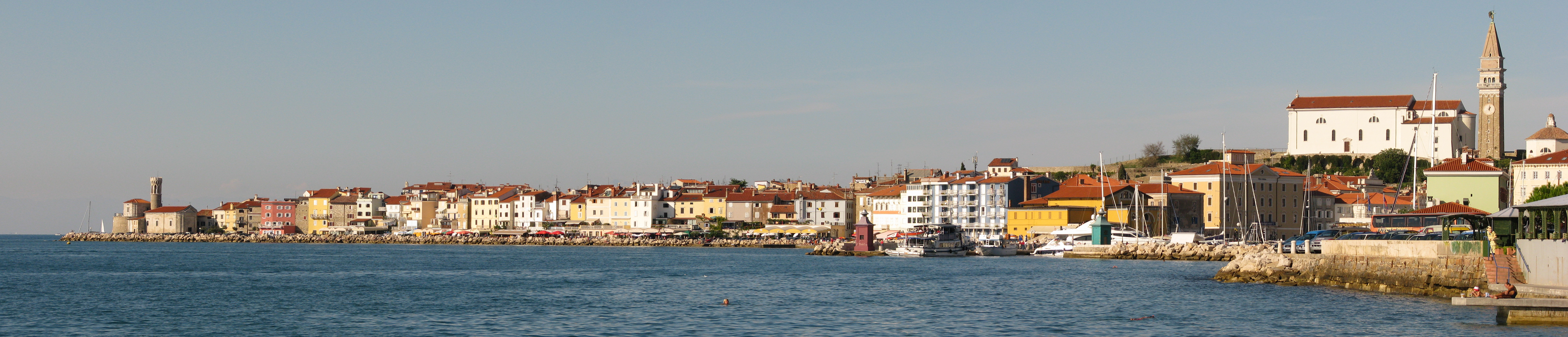 City of Piran, Slovenia